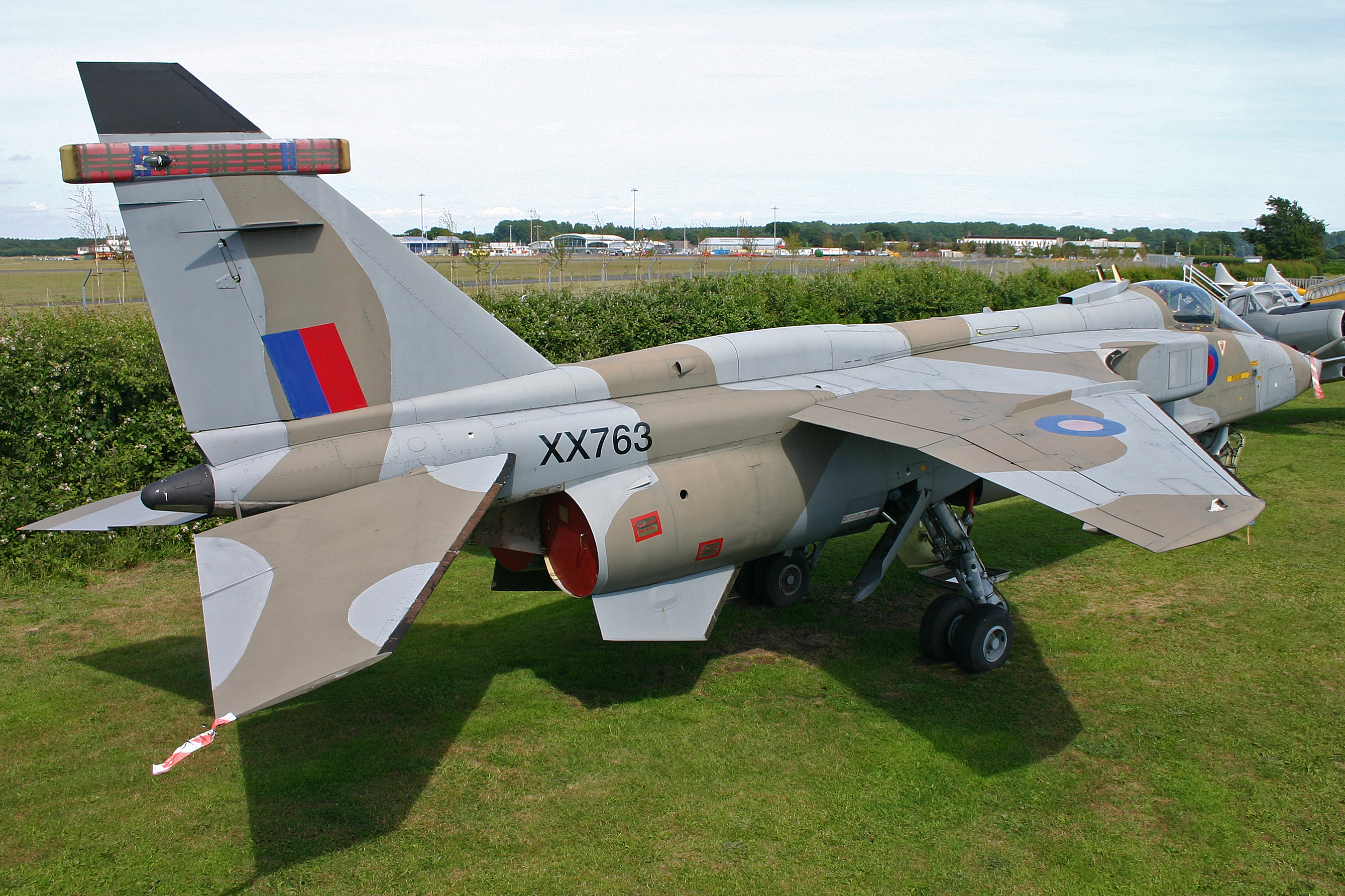 One of very few Jaguars in preservation. 226OCU bars are visible on the tail, although it carries no other unit markings. It last flew operationally in 1985, before becoming a technical training airframe. msn S.60. Bournemouth Air Museum. 14-6-2011